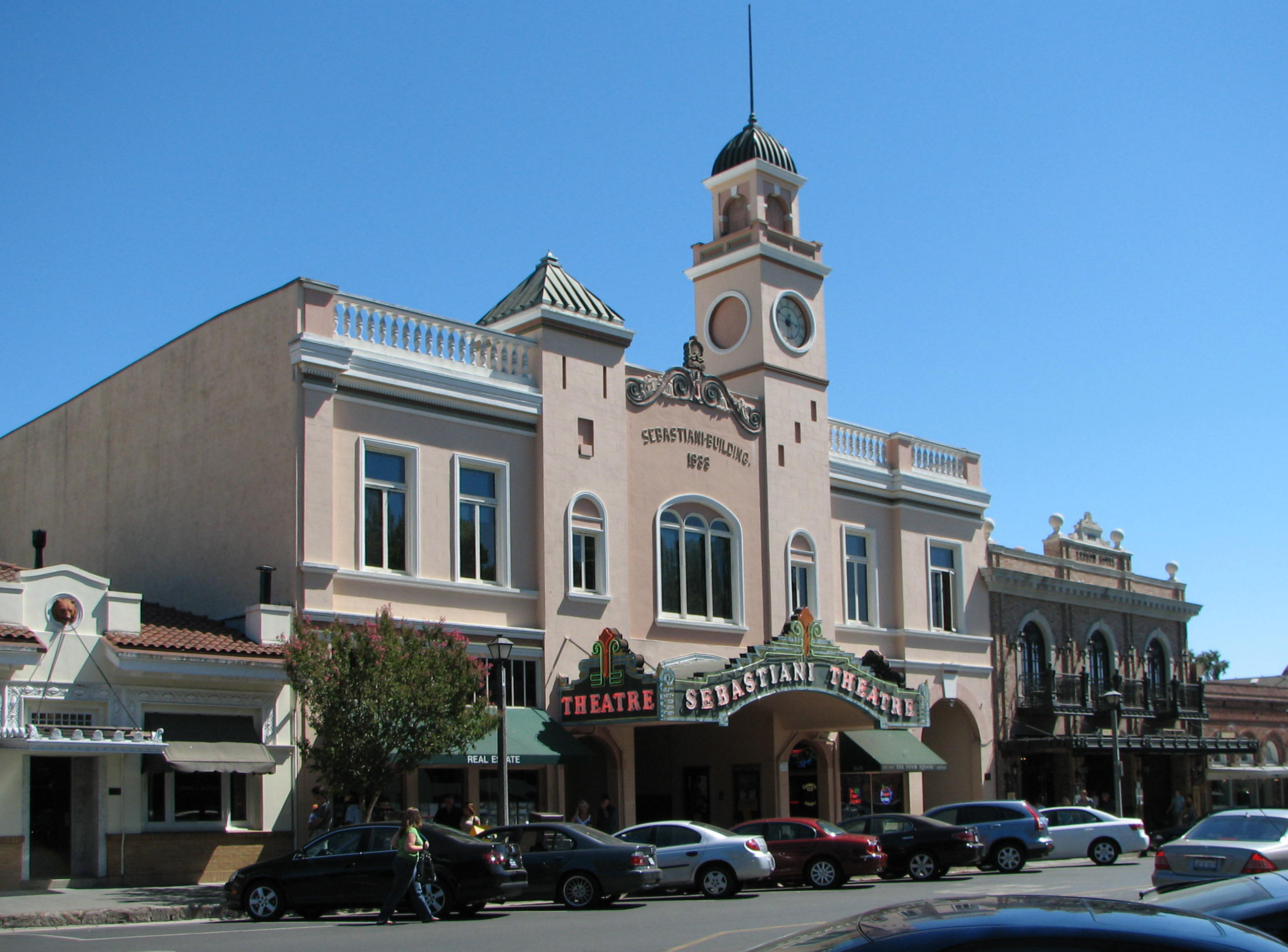 Sebastiani Theatre (1933), Sonoma, California, USA